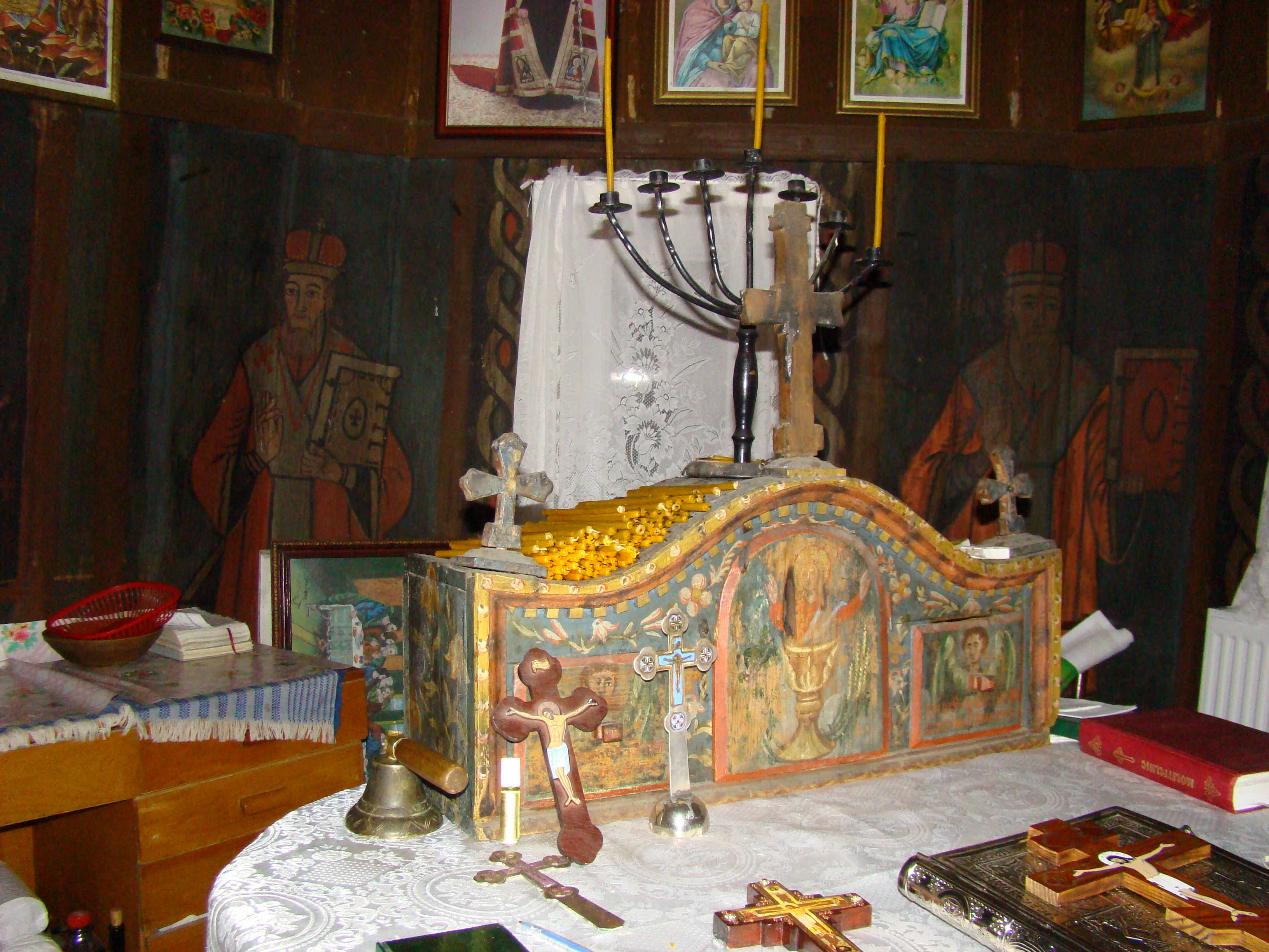 Rotărești, Bihor county, Romania: the wooden church